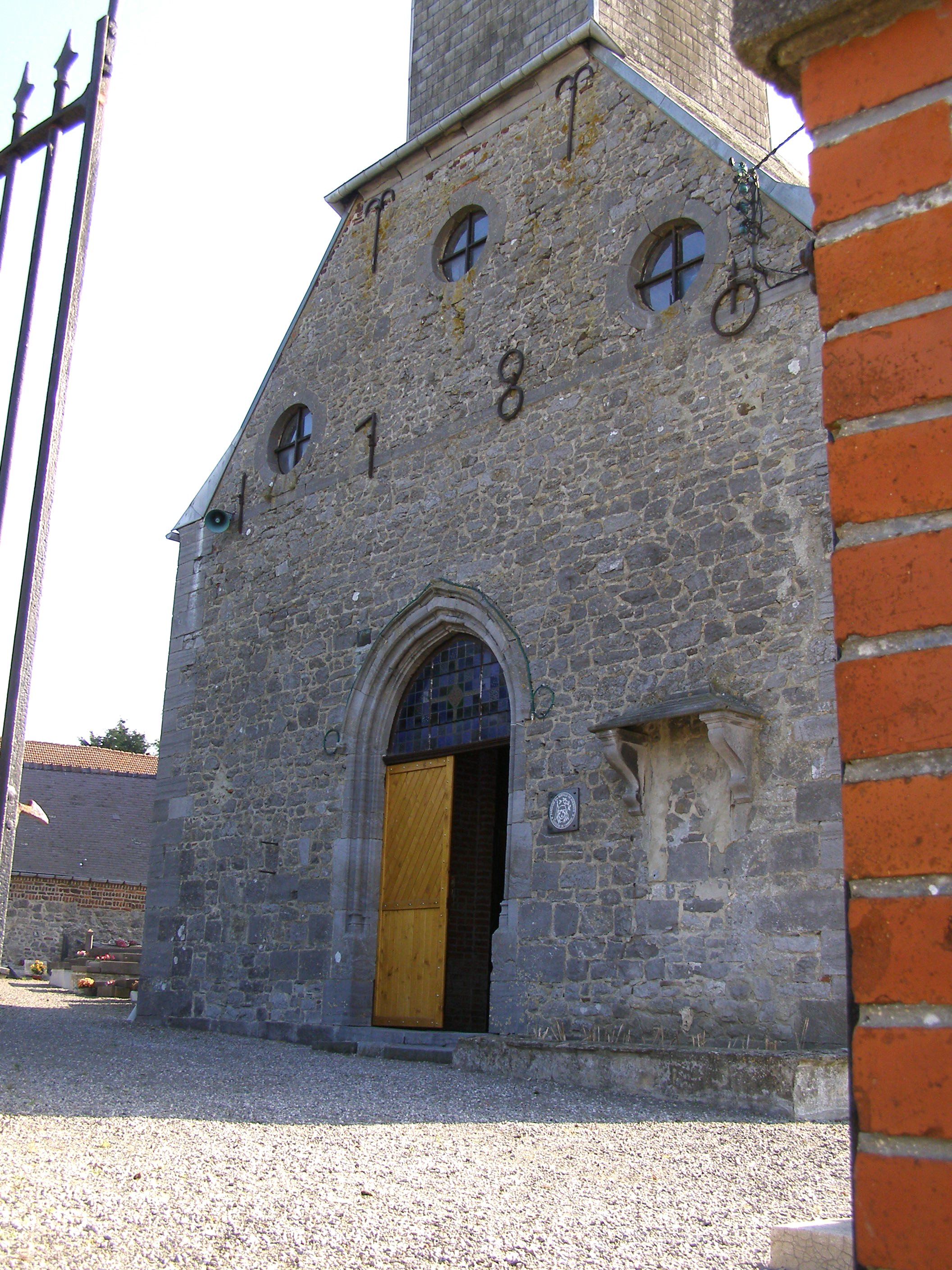 Church.